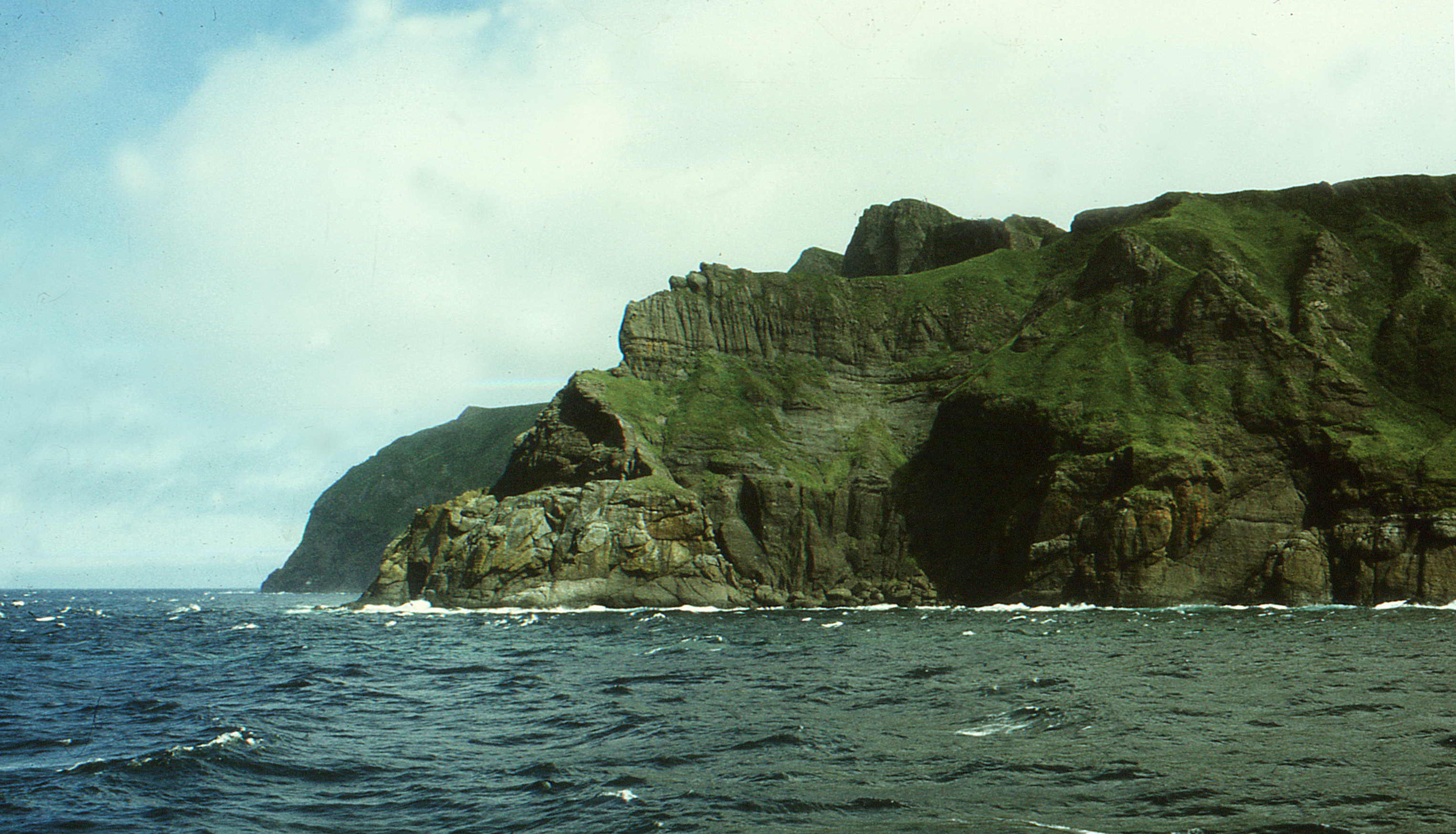 Shikotan Island, Russia